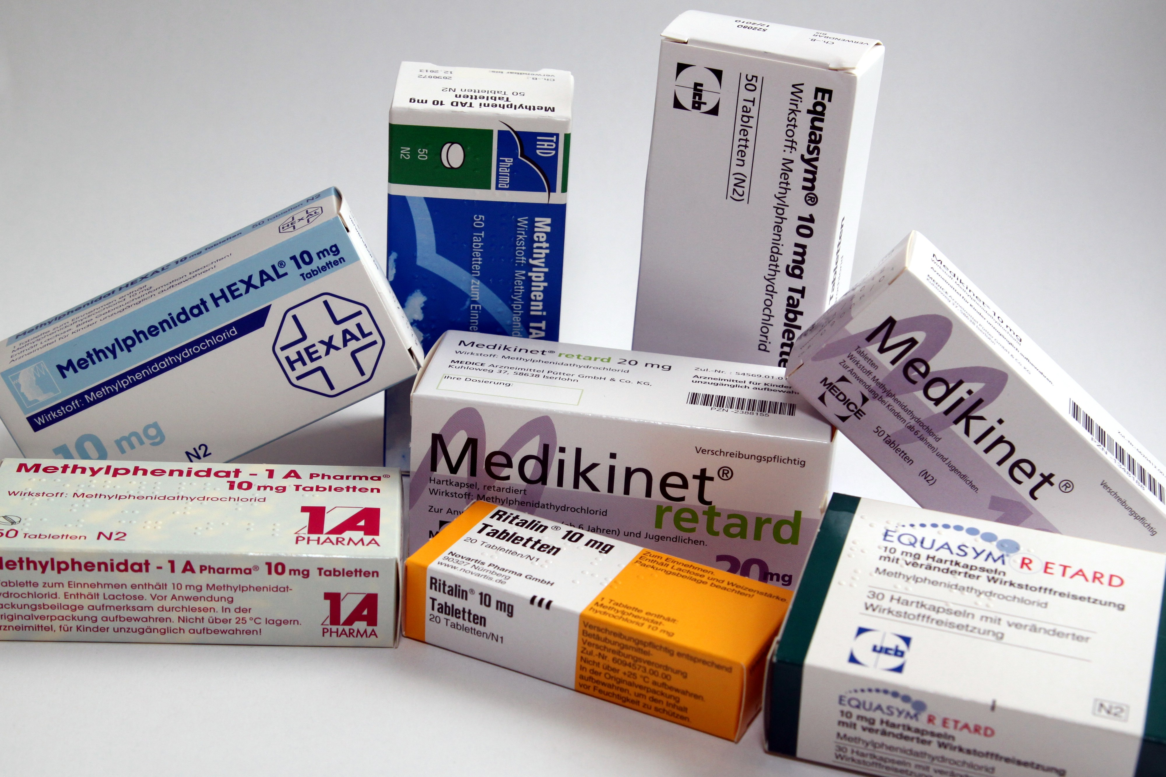 Methylphenidate packages from several german generic drug manufacturers.